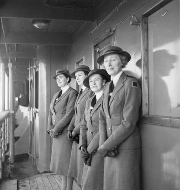 Embarkation of the ship Malaya 3. Left to right: VFX38746 Staff Nurse Mary Elizabeth Cuthbertson; VFX47776 Sister Clarice Isobel Halligan; Sister H Syer (possibly WX11105 Ada Corbitt Syer); and Staff Nurse R Wilson (possibly QFX48924 Ruby Wilson). Sisters Cuthbertson and Halligan were two of sixty five Australian nurses and over 250 civilian men, women and children evacuated on the Vyner Brooke from Singapore three days before the fall of Malaya. The Vyner Brooke was bombed by Japanese aircraft and sunk in Banka Strait on 14 February 1942. Of the sixty five nurses, thirty two survived the sinking and were taken Prisoner of War (POW) of which eight later died in captivity, another twenty two also survived the sinking and were washed ashore on Radji Beach, Banka Island where they surrendered to the Japanese along with twenty five British soldiers. On 16 February 1942 the group was massacred, the soldiers were bayoneted and the nurses were ordered to march into the sea where they were shot. Only Sister Vivian Bullwinkel and a British soldier survived the massacre. Both were taken POW, but only Sister Bullwinkel survived the war. Sisters Cuthbertson and Halligan were both in the group which was massacred on Radji Beach. Sister Ada Syer survived the sinking of the Vyner Brooke, was taken prisoner and survived the war.